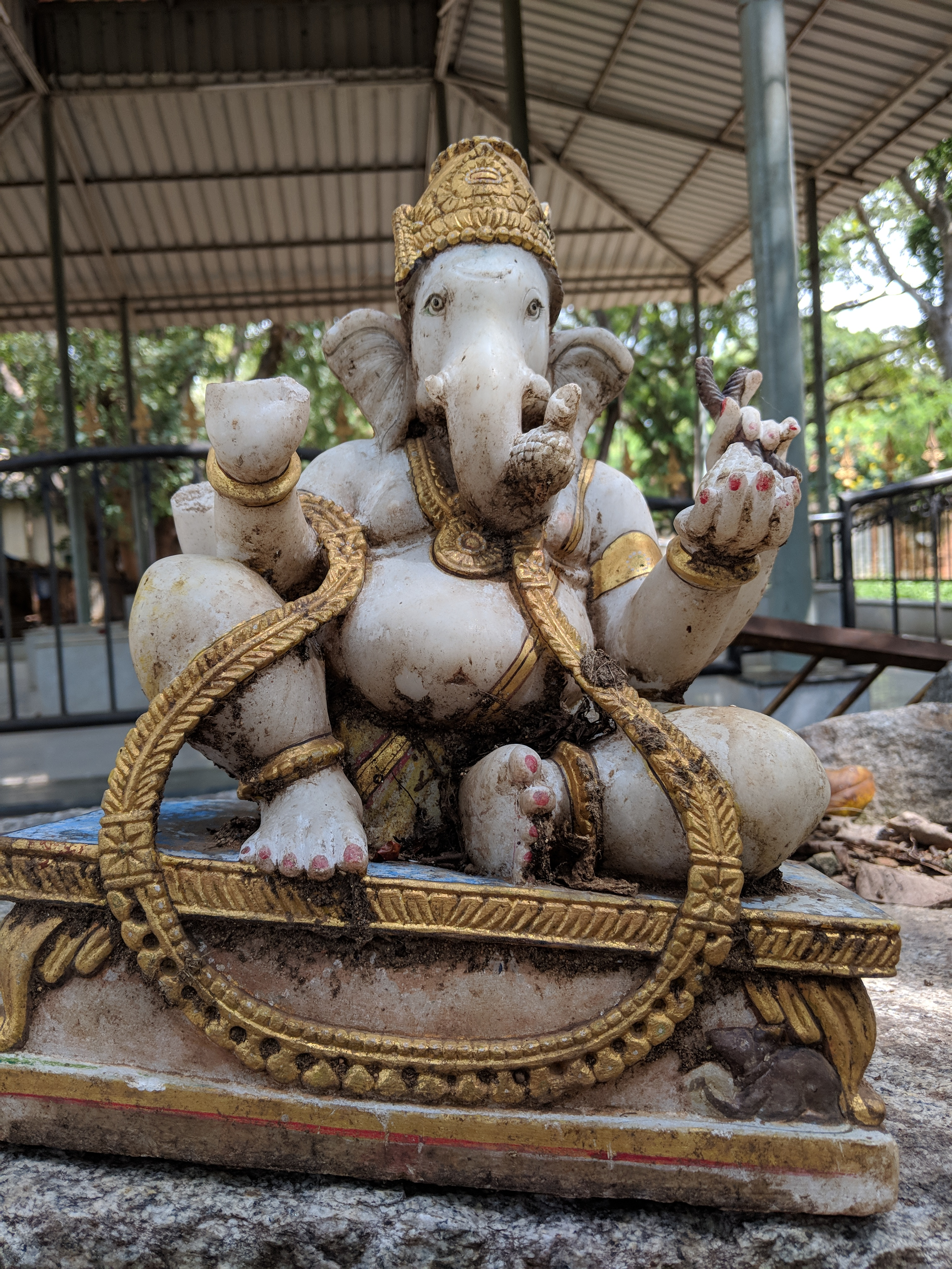 Idol of Lord Ganesha This photo has been taken in the country: India